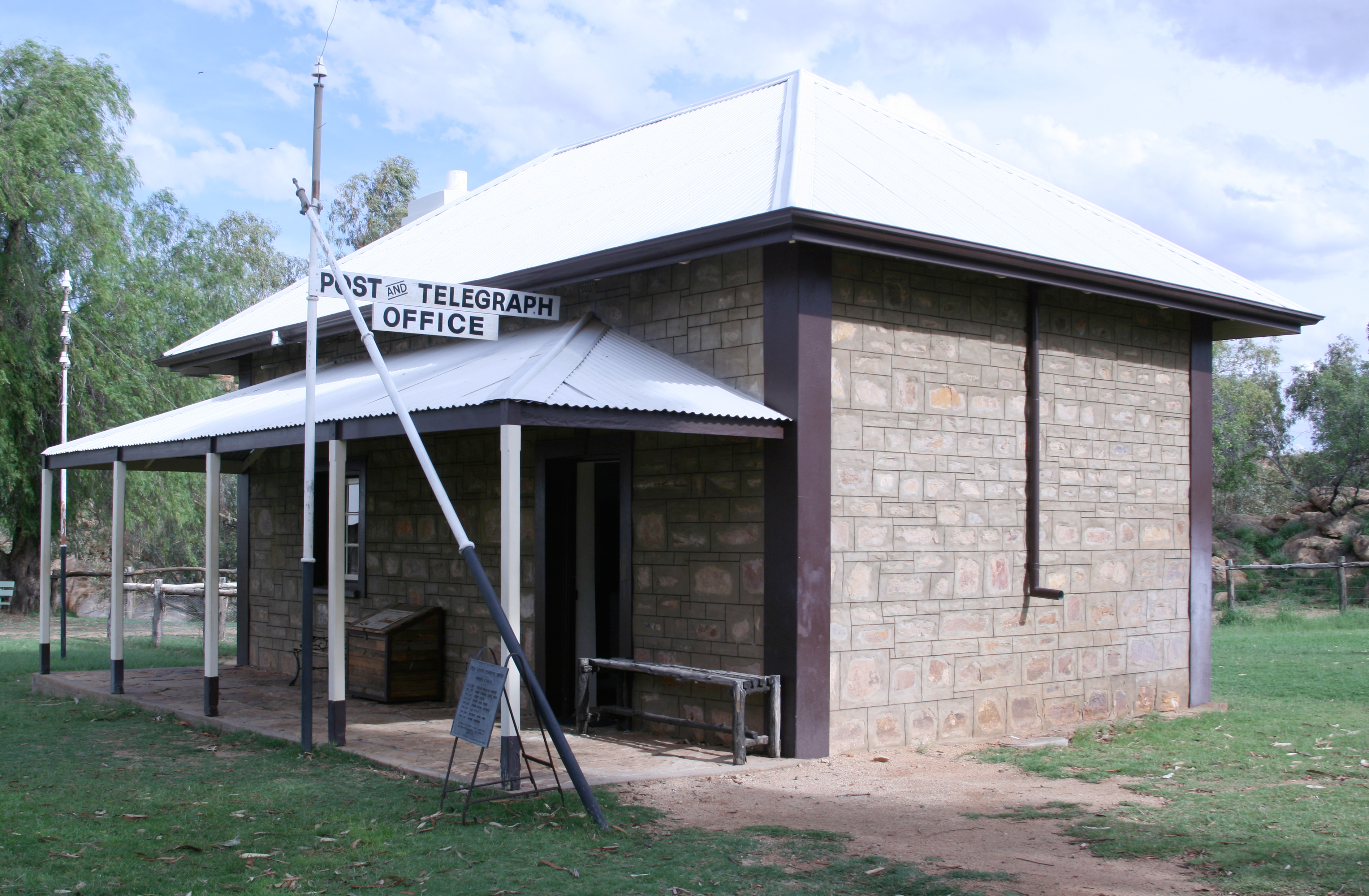 Australian Overland Telegraph Office, Alice Springs, N.T.